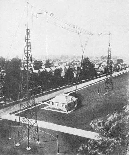 WTAM, Cleveland, Ohio, original transmitter site. Original caption: "WTAM, RUN FROM STORAGE BATTERIES: This 1,000-watt broadcasting station, built and operated by the Willard Storage Battery Company, has recently opened up in Cleveland, Ohio. It sends on a wavelength of 390 meters [770 kHz]."